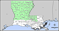 Summary Map of counties eligible for debris removal and emergency protective measures, including direct Federal assistance, will be provided at 75 percent Federal funding. Other counties were eligible for similar measures, without the 75 percent limit.[1][2] Category:Hurricane Katrina